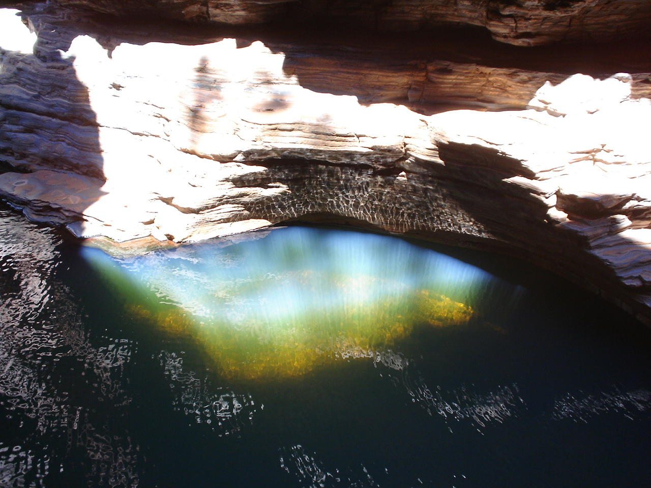 Kermits Pool in Karijini national park, Western Australia.